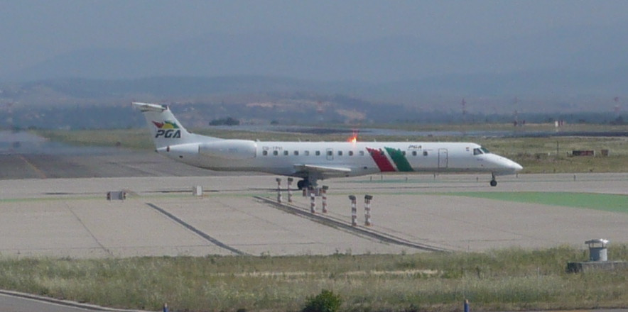 A Portugalia Embraer 145 Reg. CS-TPH at Madrid Barajas.